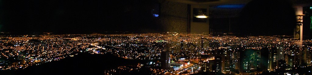 nightview from the Alta Vila Tower, br, mg, belo horizonte.